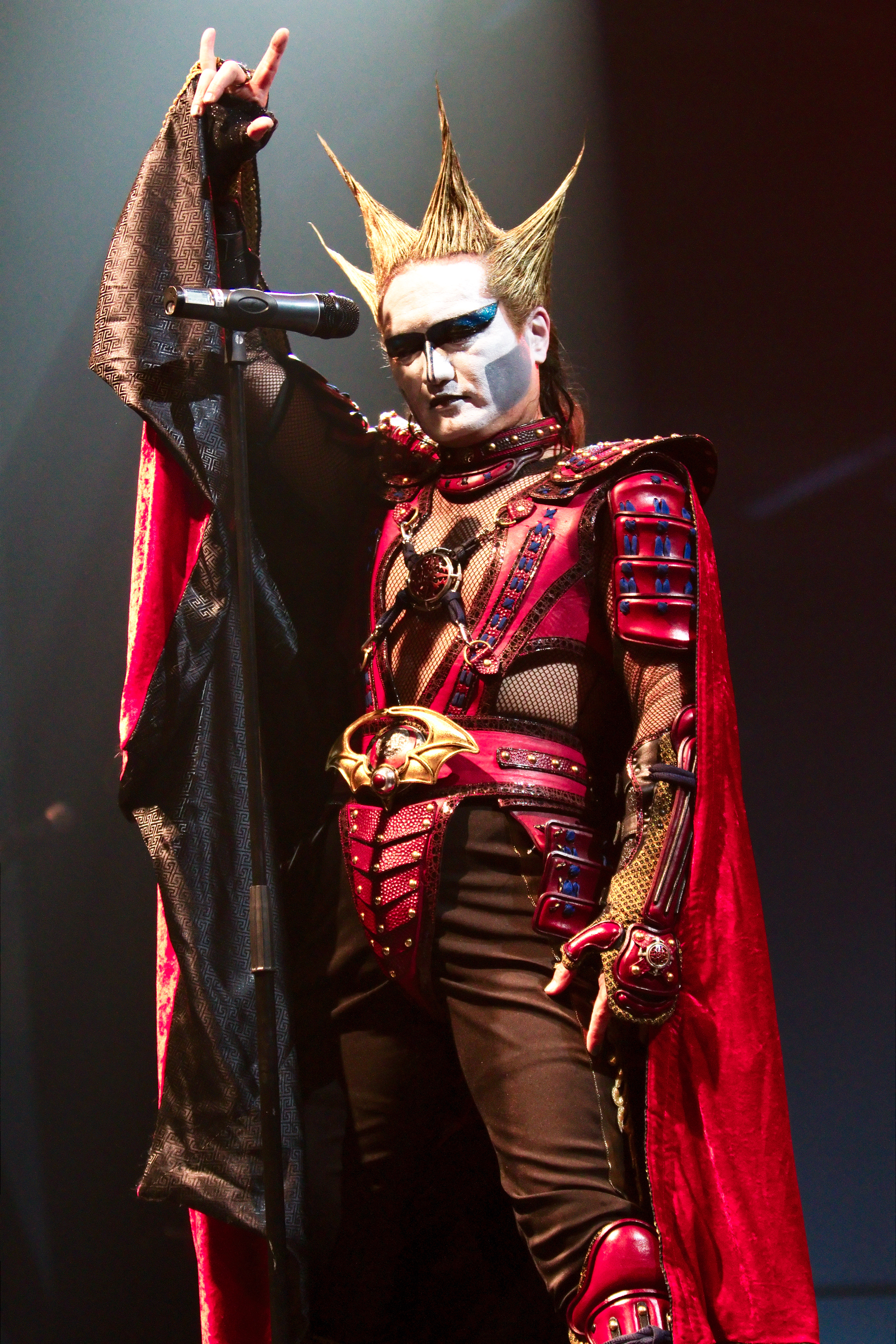 Seikima-II live at Japan Expo 2010 (Paris, France).